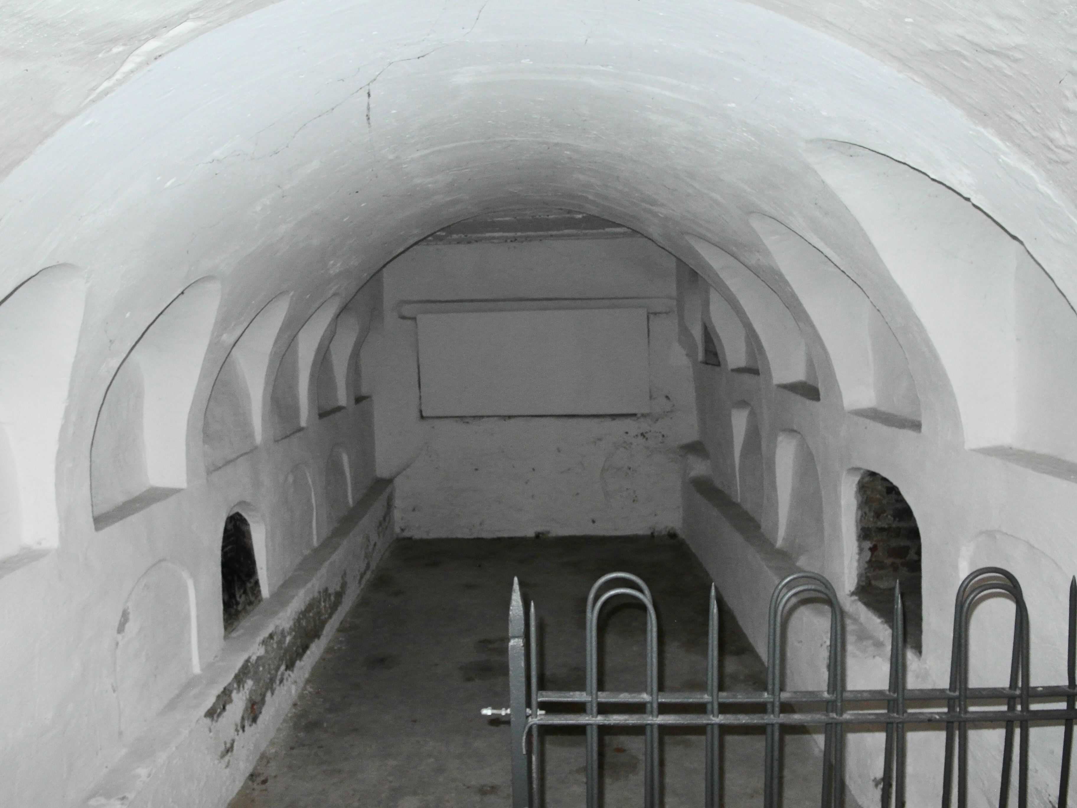 Tomb chamber below the former abbey church St John Baptist in Aachen-Burtscheid, Germany